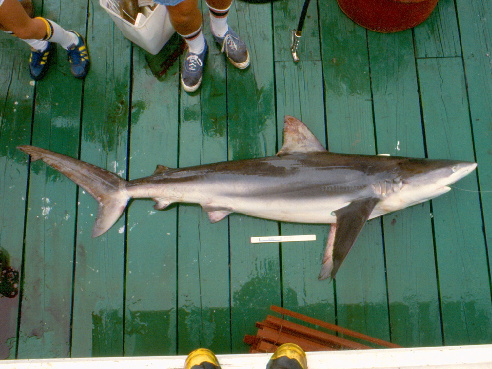 Dusky shark (Carcharhinus obscurus)